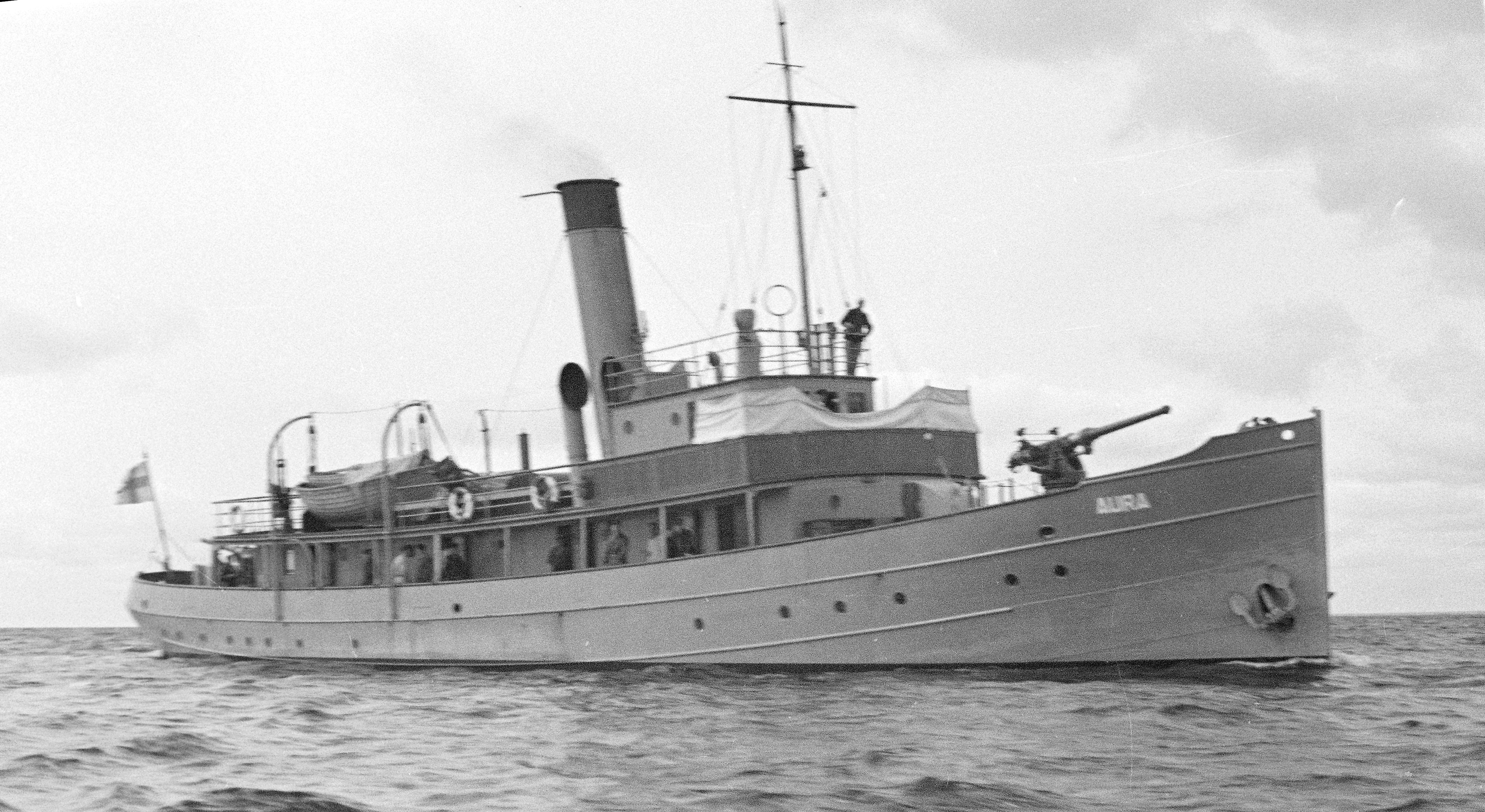 "With a convoy over the Sea of Åland. The escort ship Aura". Picture by Fenrik L. Zilliacus